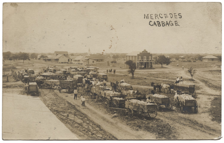 Title: Mercedes Cabbage Creator: P. C. Shockey Date: ca. 1912 Part Of: Collection of real photographic postcards of Texas Place: Mercedes, Hidalgo County, Texas Physical Description: 1 photographic print (postcard) File: ag2005_0001_01_192_r_mercedes_opt.jpg Rights: Please cite DeGolyer Library, Southern Methodist University when using this file. A high-resolution version of this file may be obtained for a fee. For details see the web page. For other information, . For more information, View Texas: Photographs, Manuscripts, and Imprints